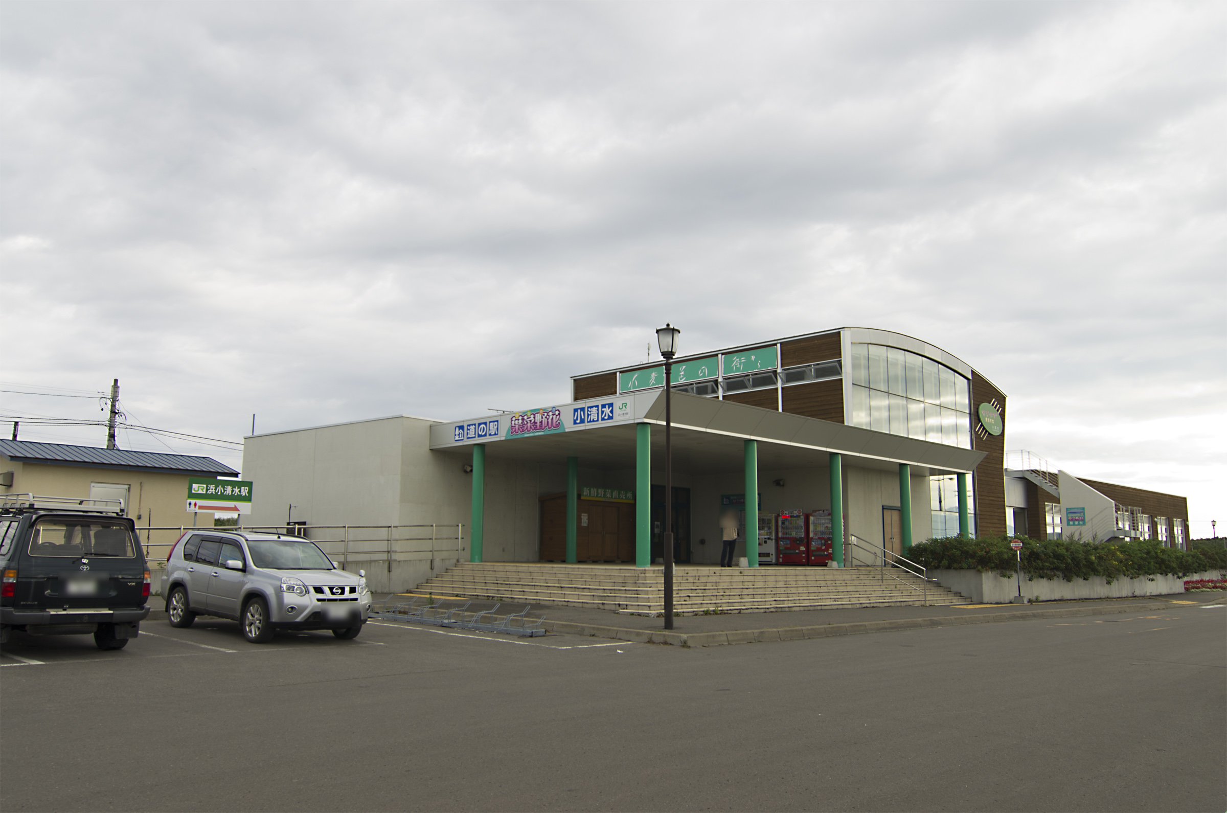 Hama-Koshimizu Station and Michinoeki Hanayaka Koshimizu